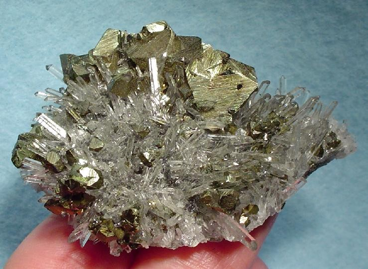 Chalcopyrite, Quartz, Sphalerite Locality: Groundhog Mine, Vanadium, Central District, Grant County, New Mexico, USA (Locality at ) Size: 6.1 x 4.5 x 2.8 cm. An old-time, superb, mounded combination piece from the Groundhog Mine at Vanadium, New Mexico. Mirror-bright, striated, brassy and lightly iridescent chalcopyrite crystals are richly and aesthetically scattered on a porcupine-like forest of water-clear quartz needles. Ex. Stoudt Collection and according to label and their catalogue, this piece dates to circa 1956.